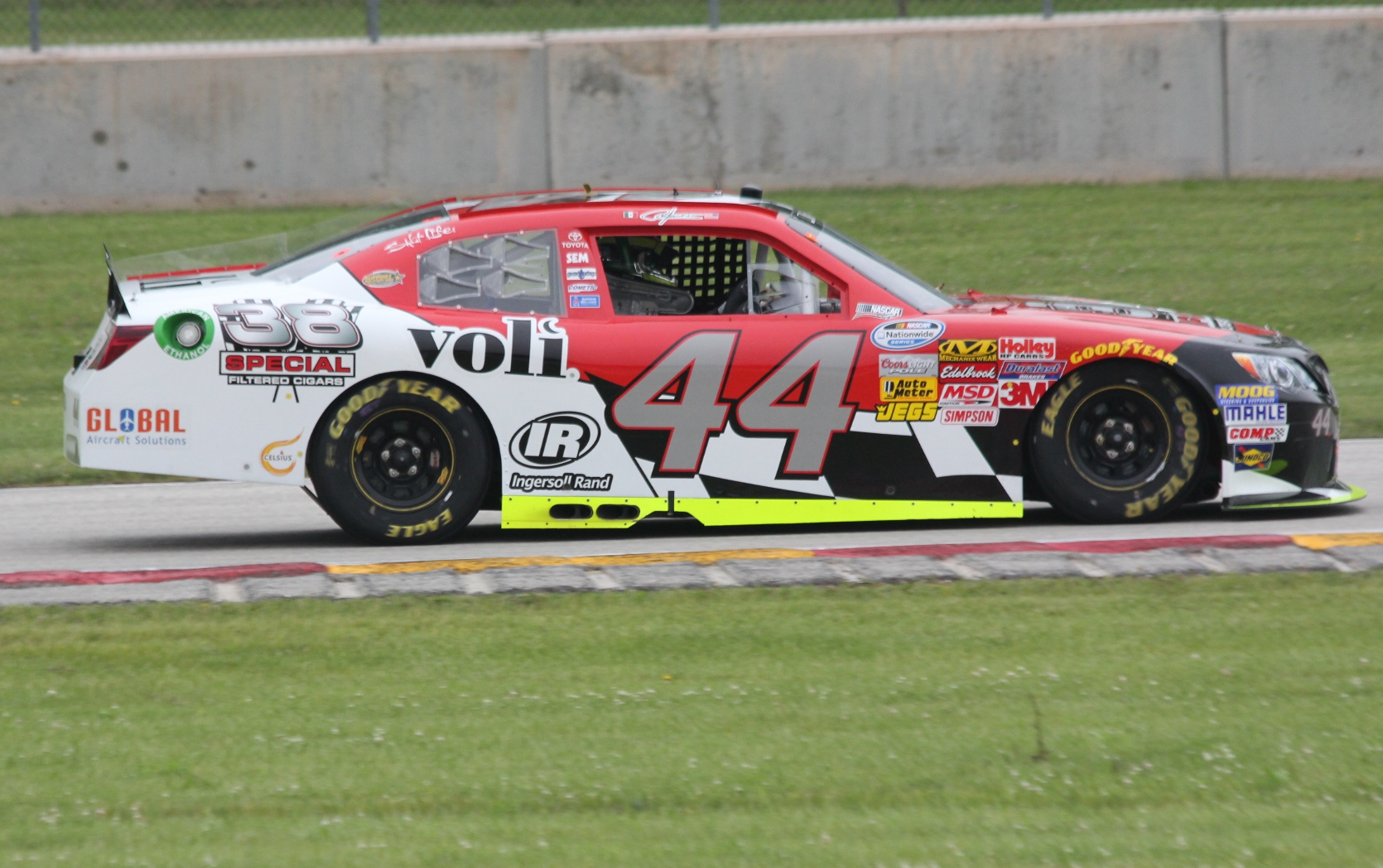 The passenger side of Carlos Contreras (racing driver) Nationwide car during the 2014 Gardner Denver 200 at Road America. Taken racing up the hill in turn 13.